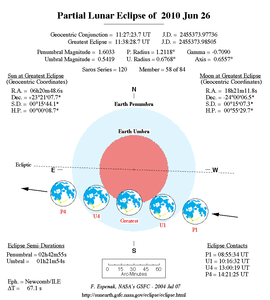 Sketch of the 2010-06-26 lunar eclipse.